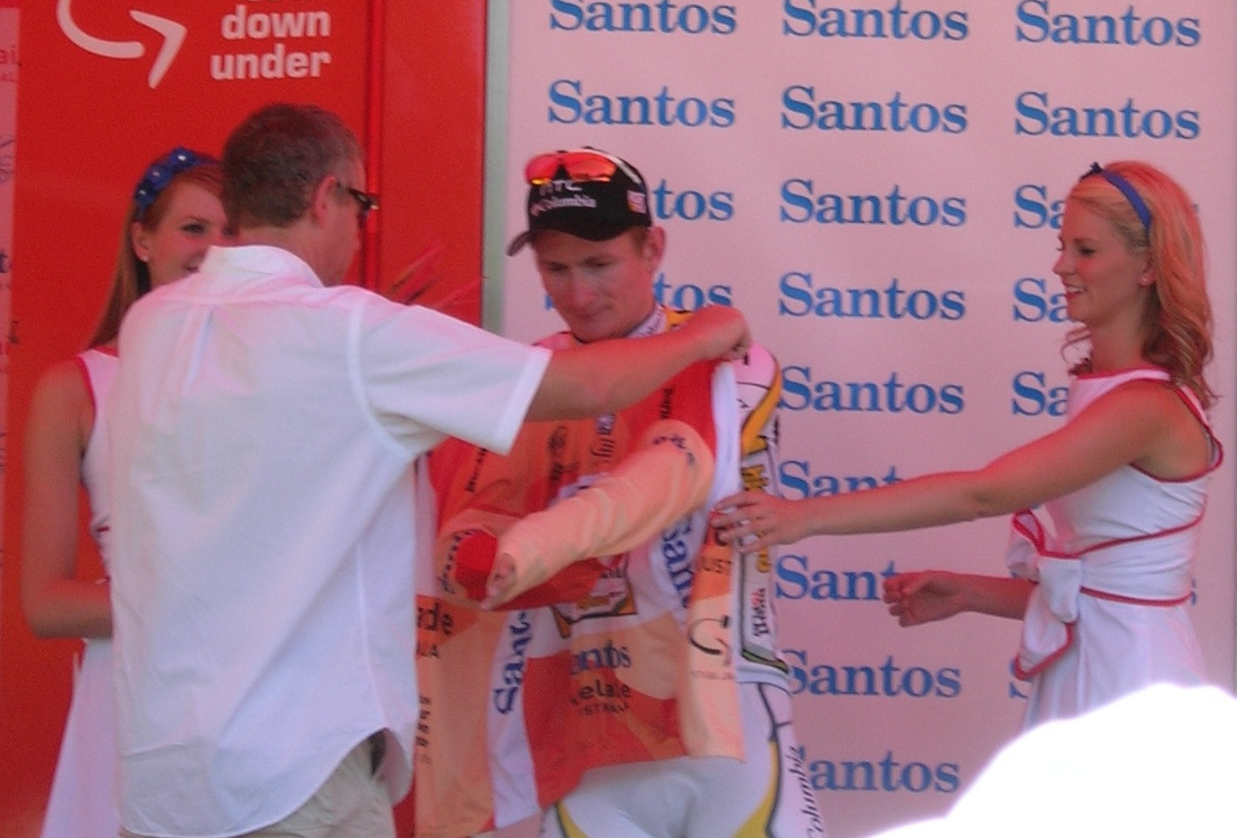 Team HTC-Columbia rider André Greipel receiving the ochre general classification jersey on the podium after Stage 3 of the 2010 Tour Down Under into Stirling.